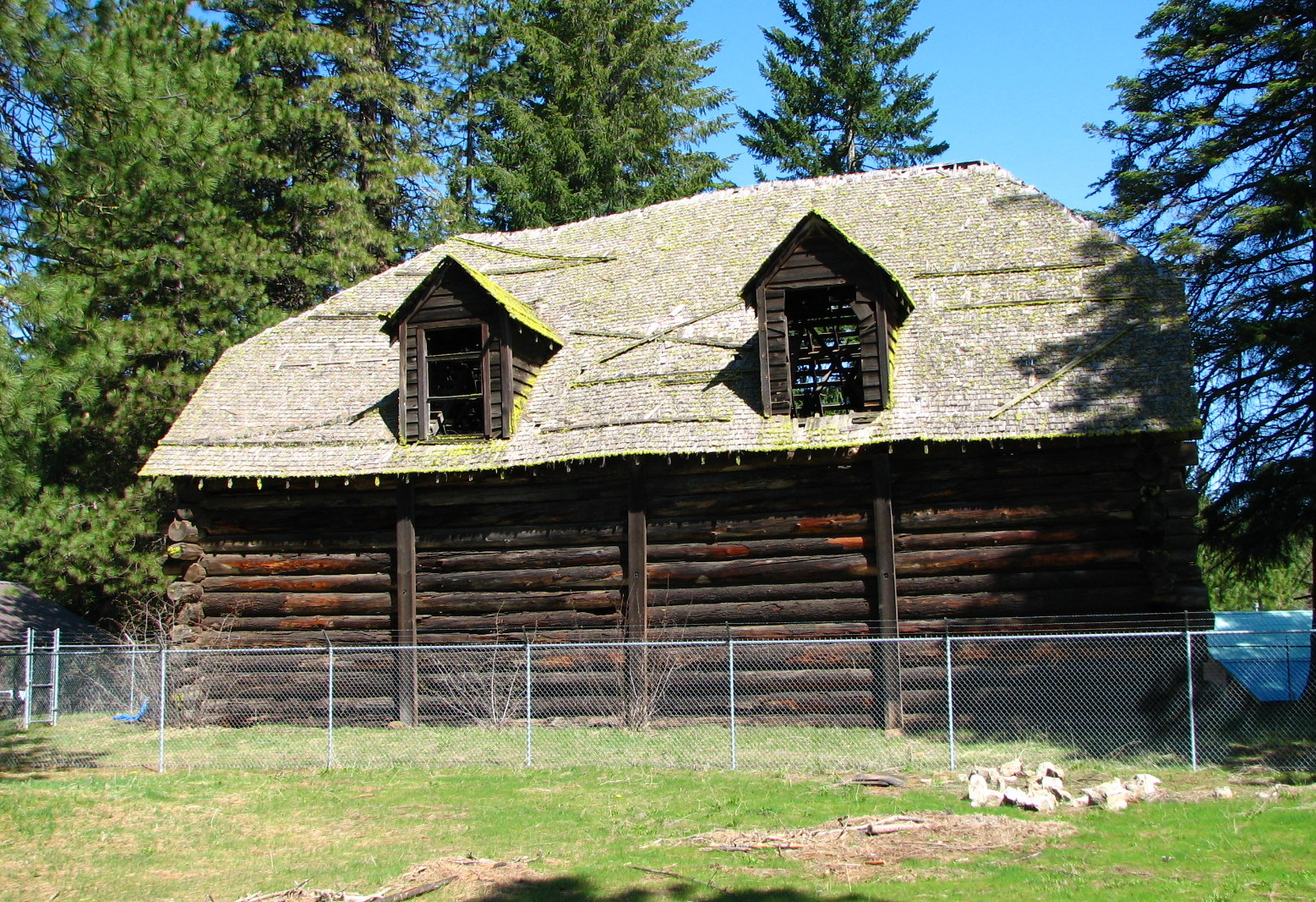 The Appleton Log Hall, located at 835 Appleton Road in Appleton, Washington, United States, is listed on the US National Register of Historic Places (NRHP).